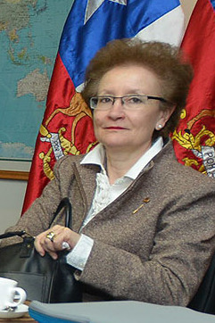 Chilean President Sebastián Piñera and the Legal team that defended Chile in the Case concerning maritime boundaries with Peru